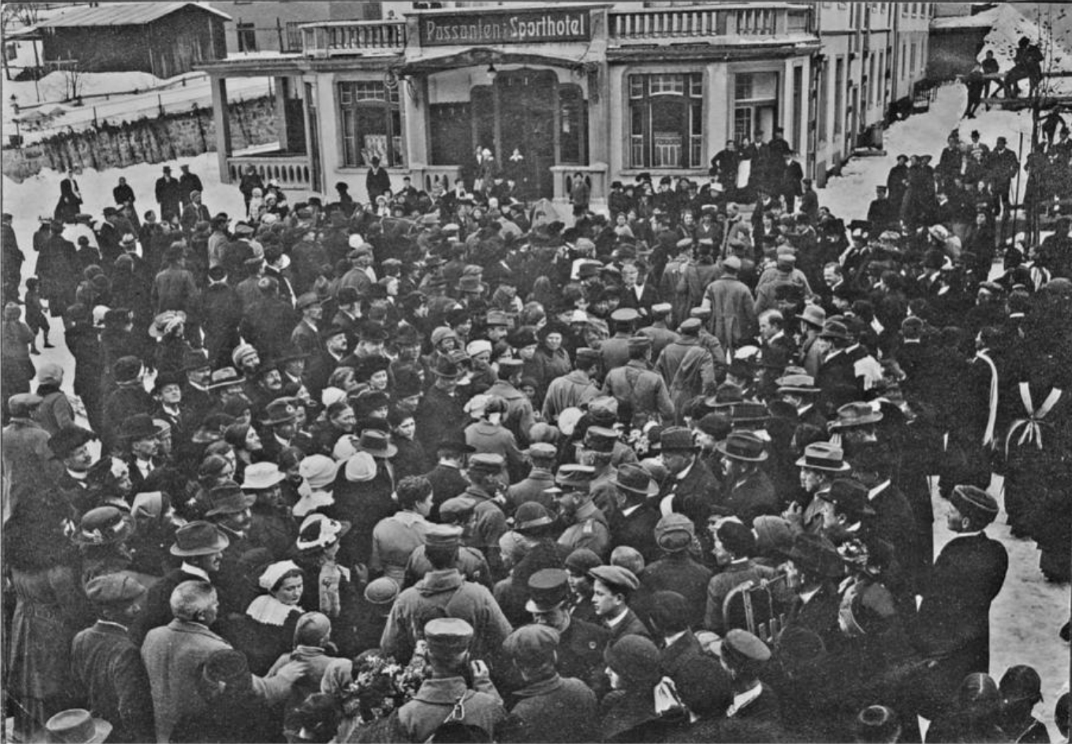 German prisoner of war arriving in Davos, Switzerland